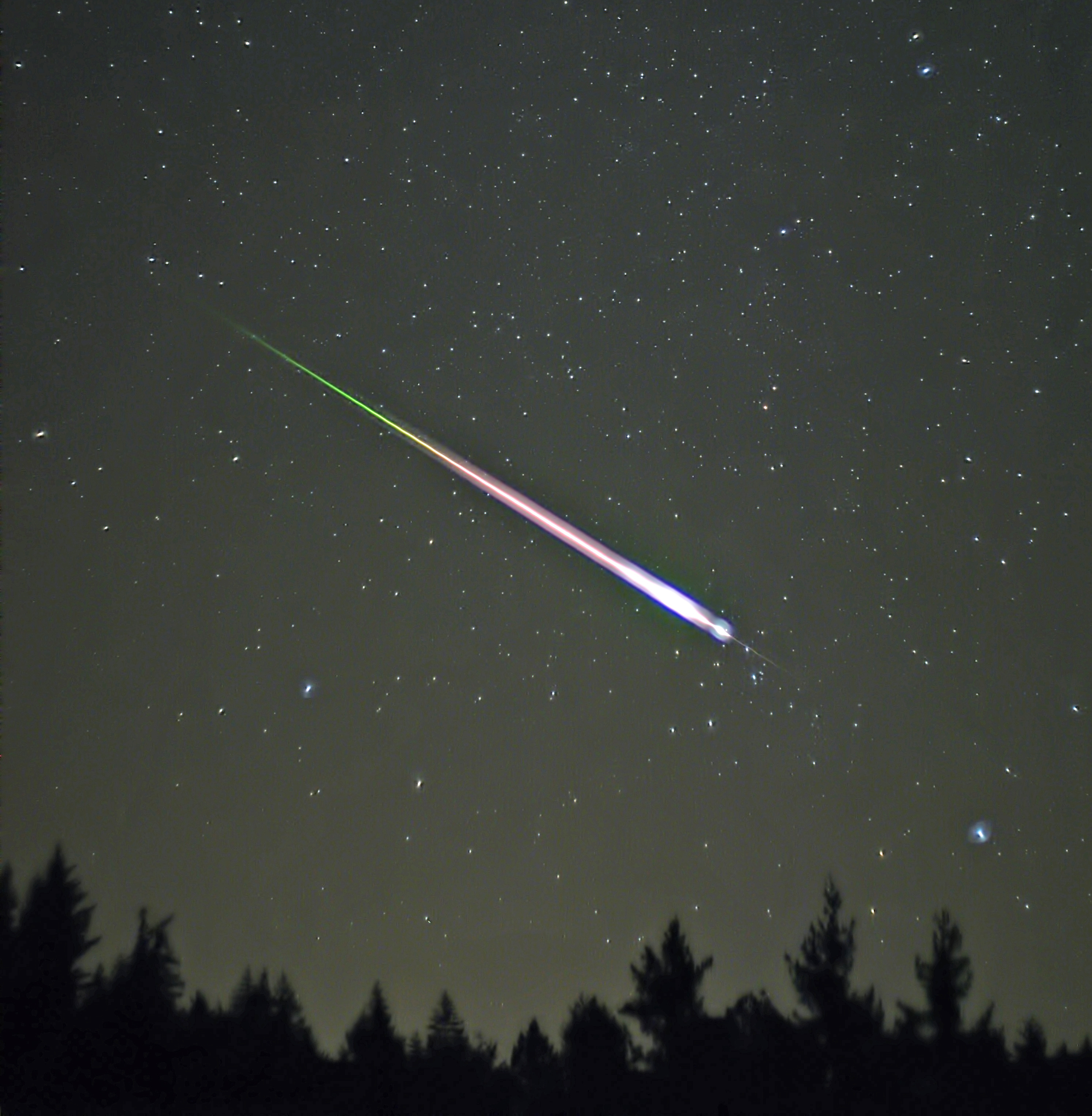 A meteor during the peak of the 2009 Leonid Meteor Shower. The photograph shows the meteor, afterglow, and wake as distinct components.